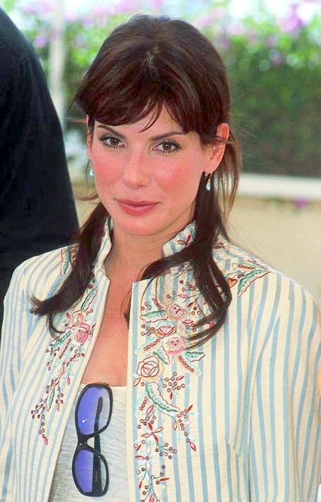 Bullock Sandra in Cannes